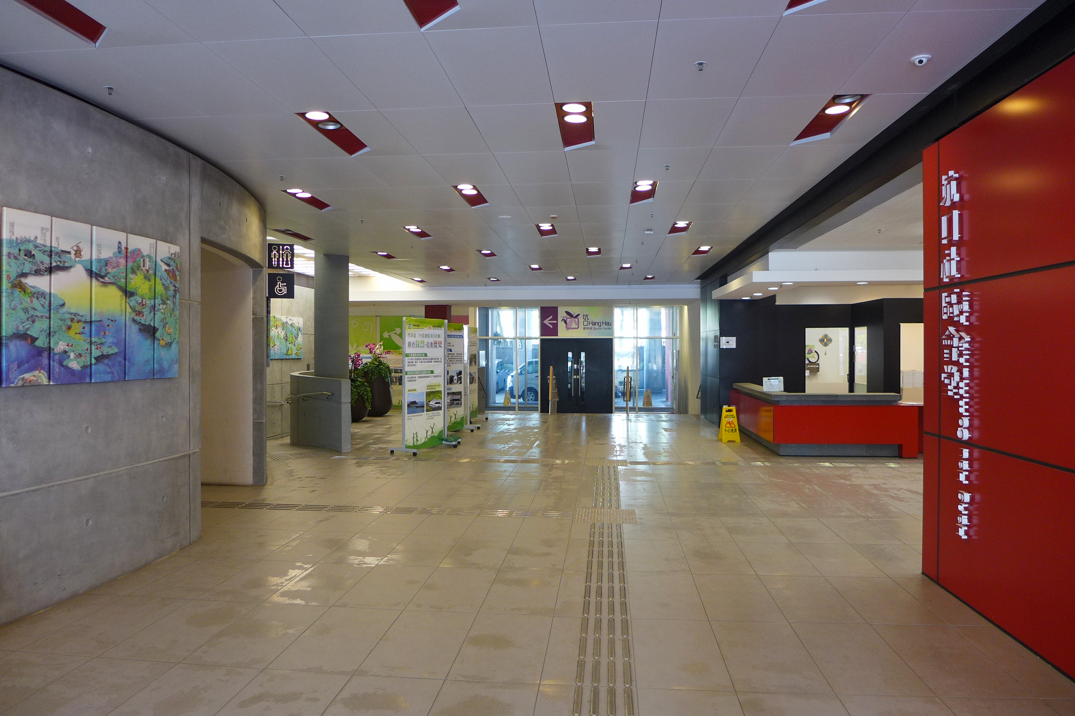 Sai Kung Tseung Kwan O Government Complex GF Lobby